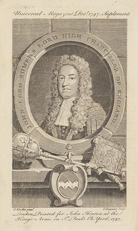 John Somers, 1st Baron Somers (1651-1716)